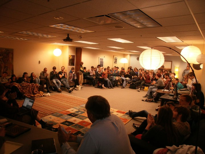 Applause following unanimous passage of the vote of no confidence in President Thomas Lindsay, at the April 18th 2010 meeting of the Assembly of Shimer College.